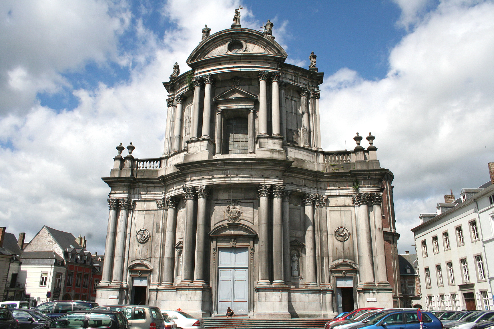 Namur (Belgium), the St. Aubin's Cathedral (1751-1767).